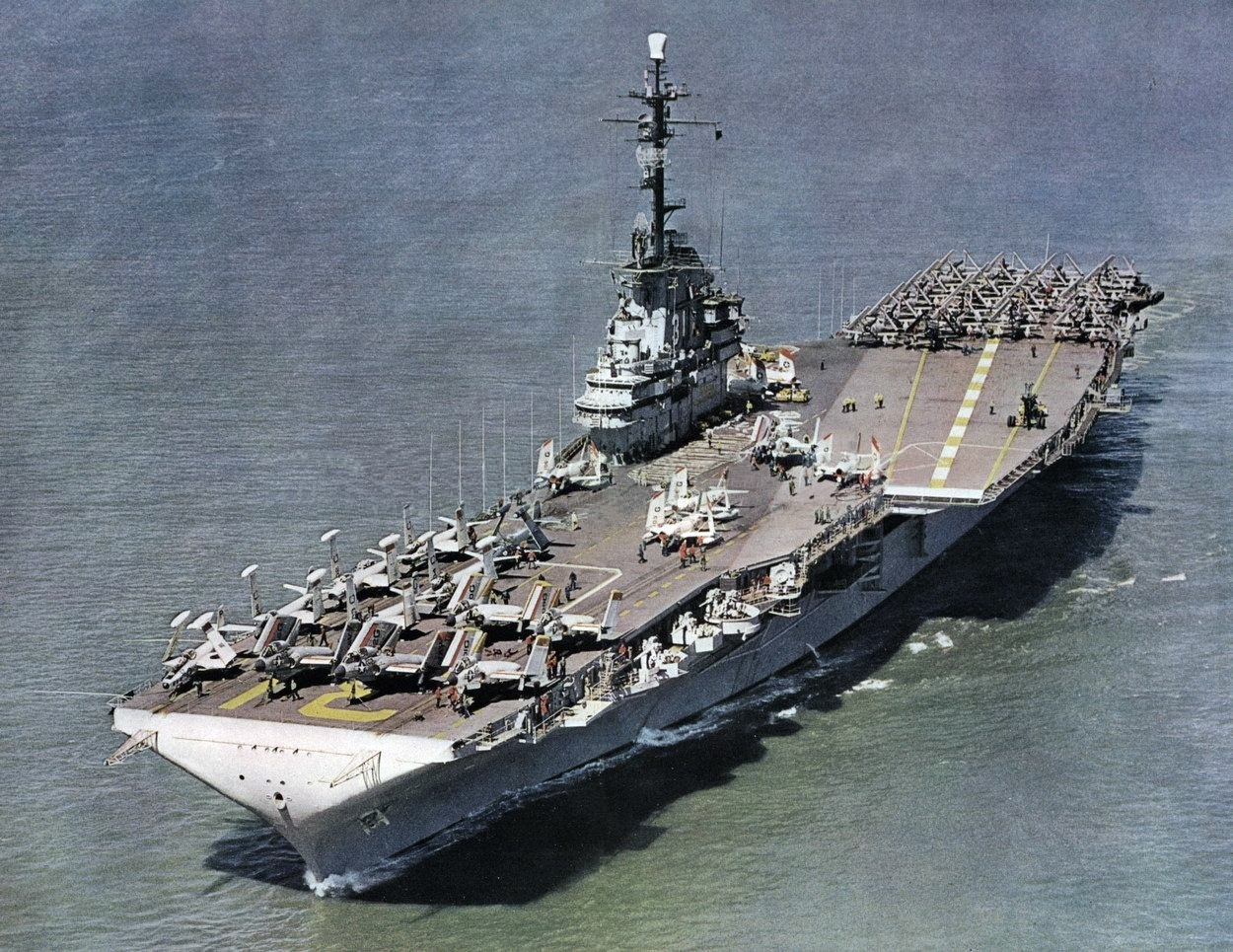 The U.S. Navy aircraft carrier USS Bon Homme Richard (CVA-31) underway. Bon Homme Richard underwent the SCB-27C/SCB-125 modernisation from 3 March 1953 to 31 October 1955 at the San Francisco Naval Shipyard. She was then deployed to the Western Pacific, with assigned Carrier Air Group 21 (CVG-21), from 16 August 1956 to 28 February 1957. This photo was taken during that period, as evidenced by the Vought F7U-3 Cutlass aircraft forward. Attack Squadron 212 (VA-212) "Rampant Raiders" served aboard her for this cruise only.